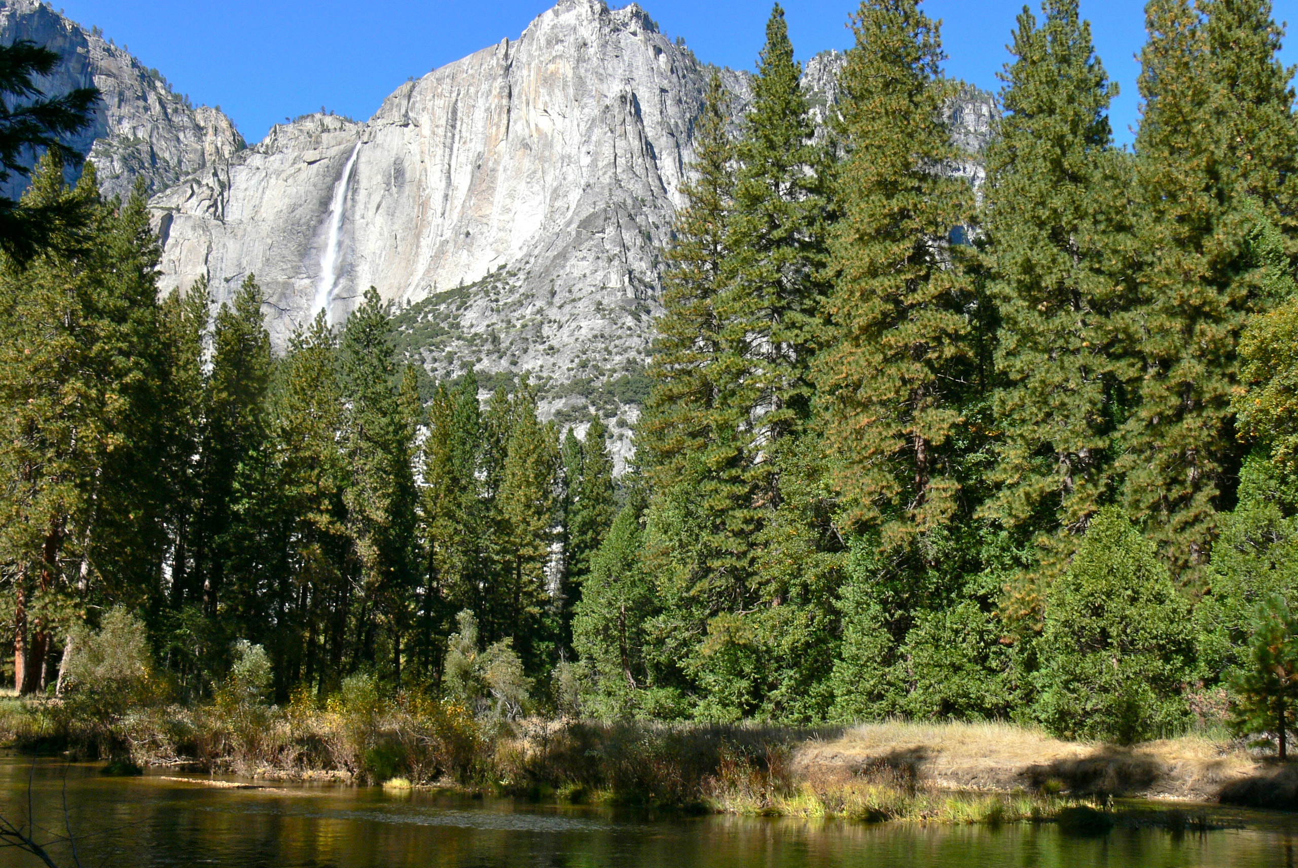 Pinus ponderosa subsp. benthamiana, Yosemite NP, California